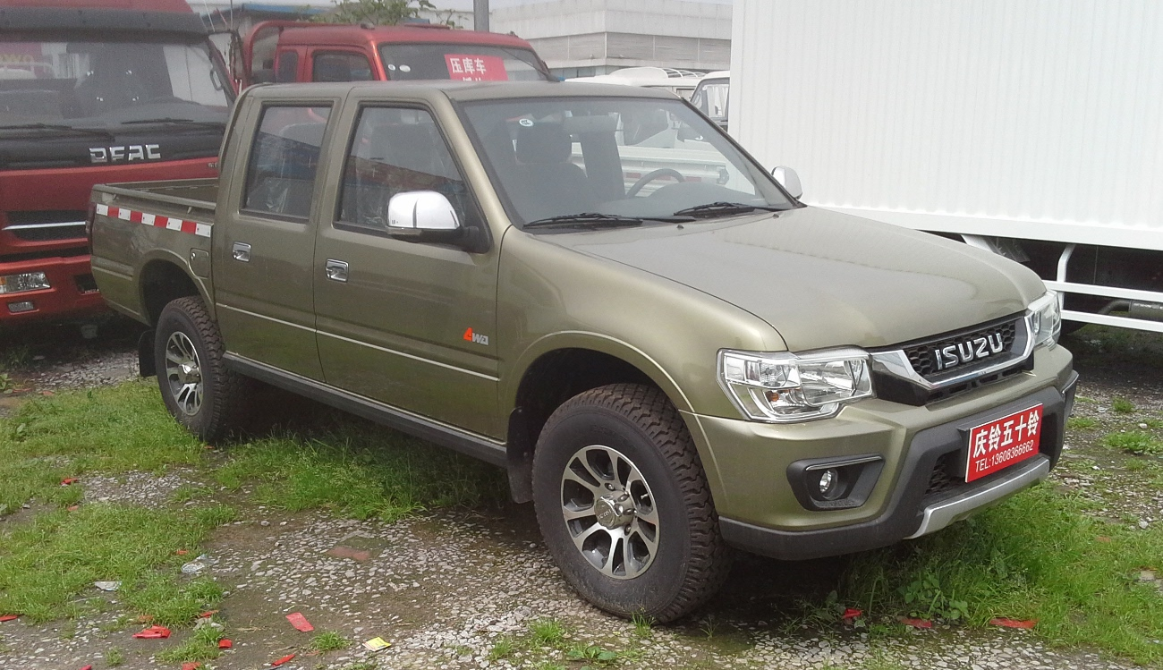 Isuzu TF facelift II photographed in Chongqing, China.